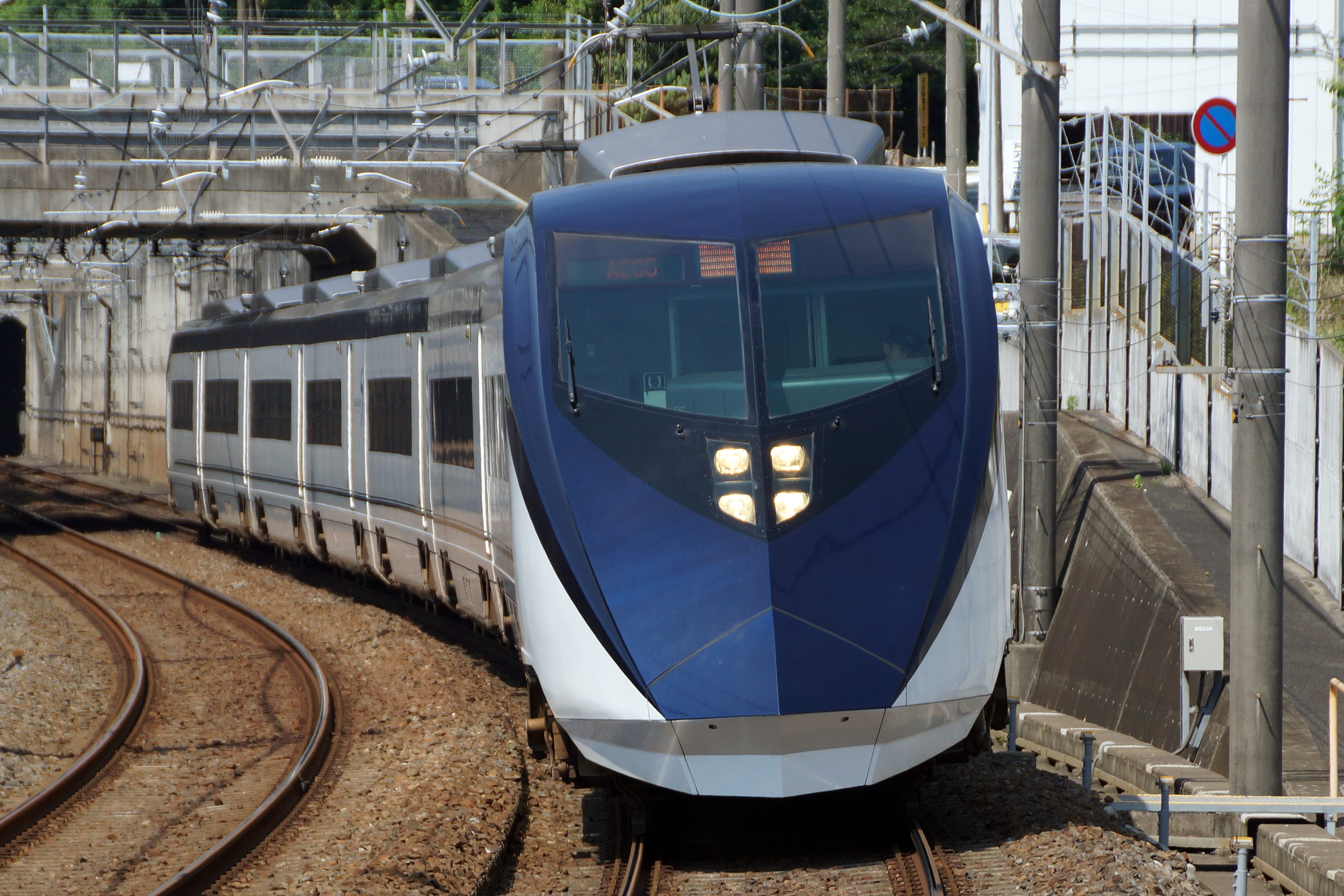 A Keisei AE series EMU passing Matsuhidai Station at a speed of 130 km/h